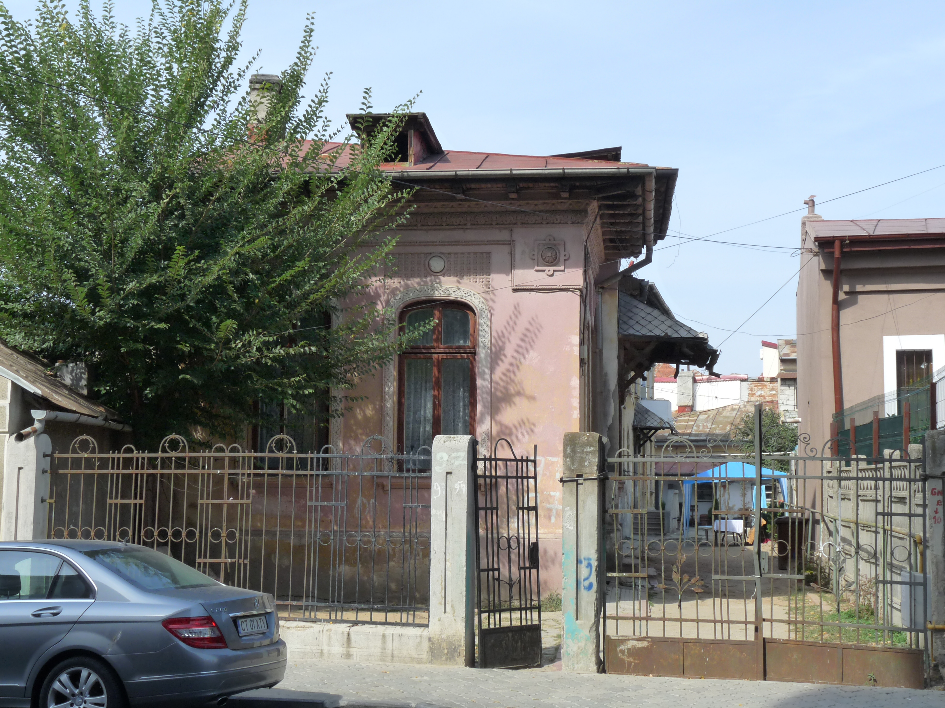 Historic building in Bucharest, Romania, at Eminescu street 97Română: Clădire istorică din București, România, în strada Mihai Eminescu, nr. 97